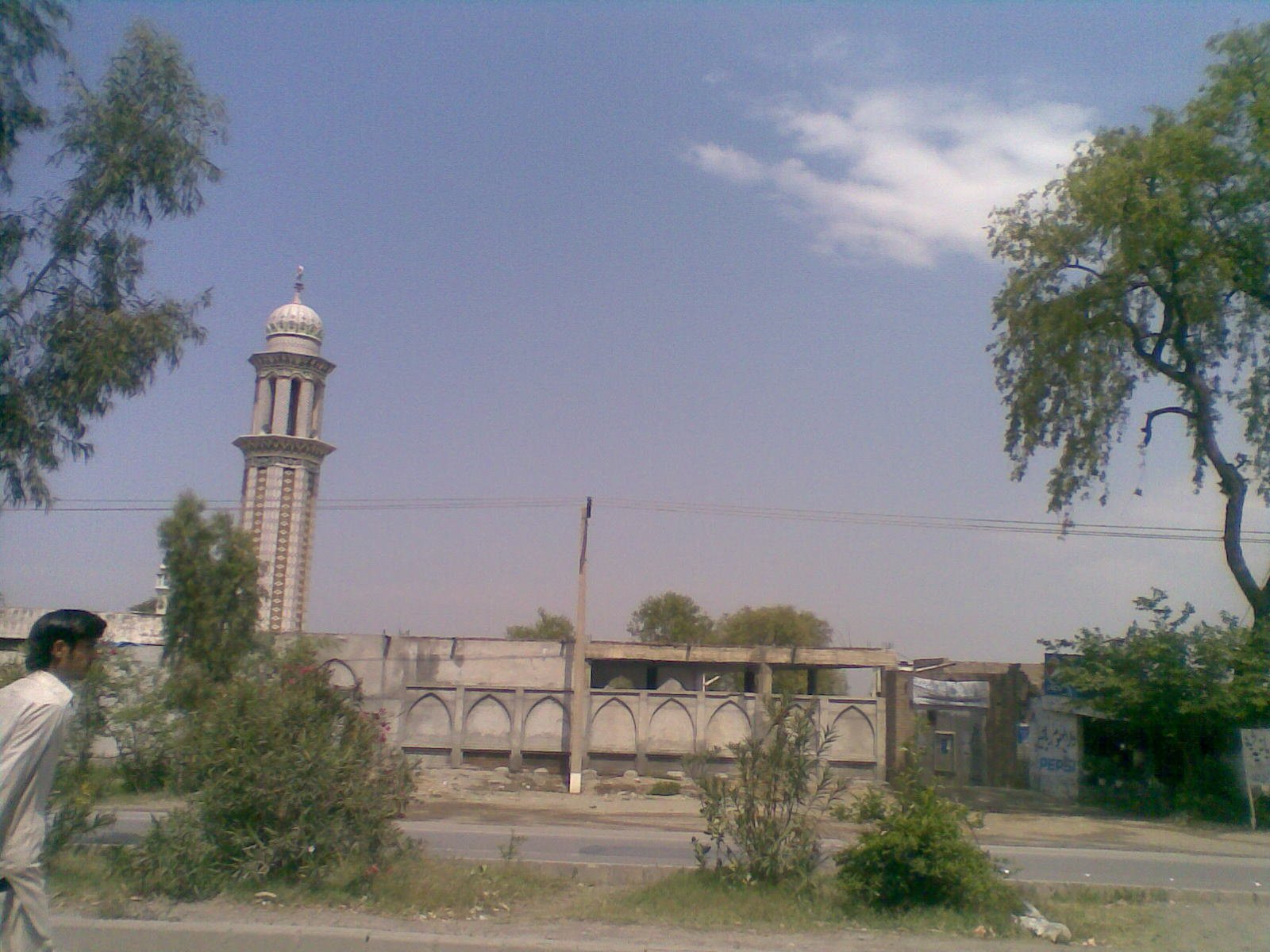 Masjid In Shaidu